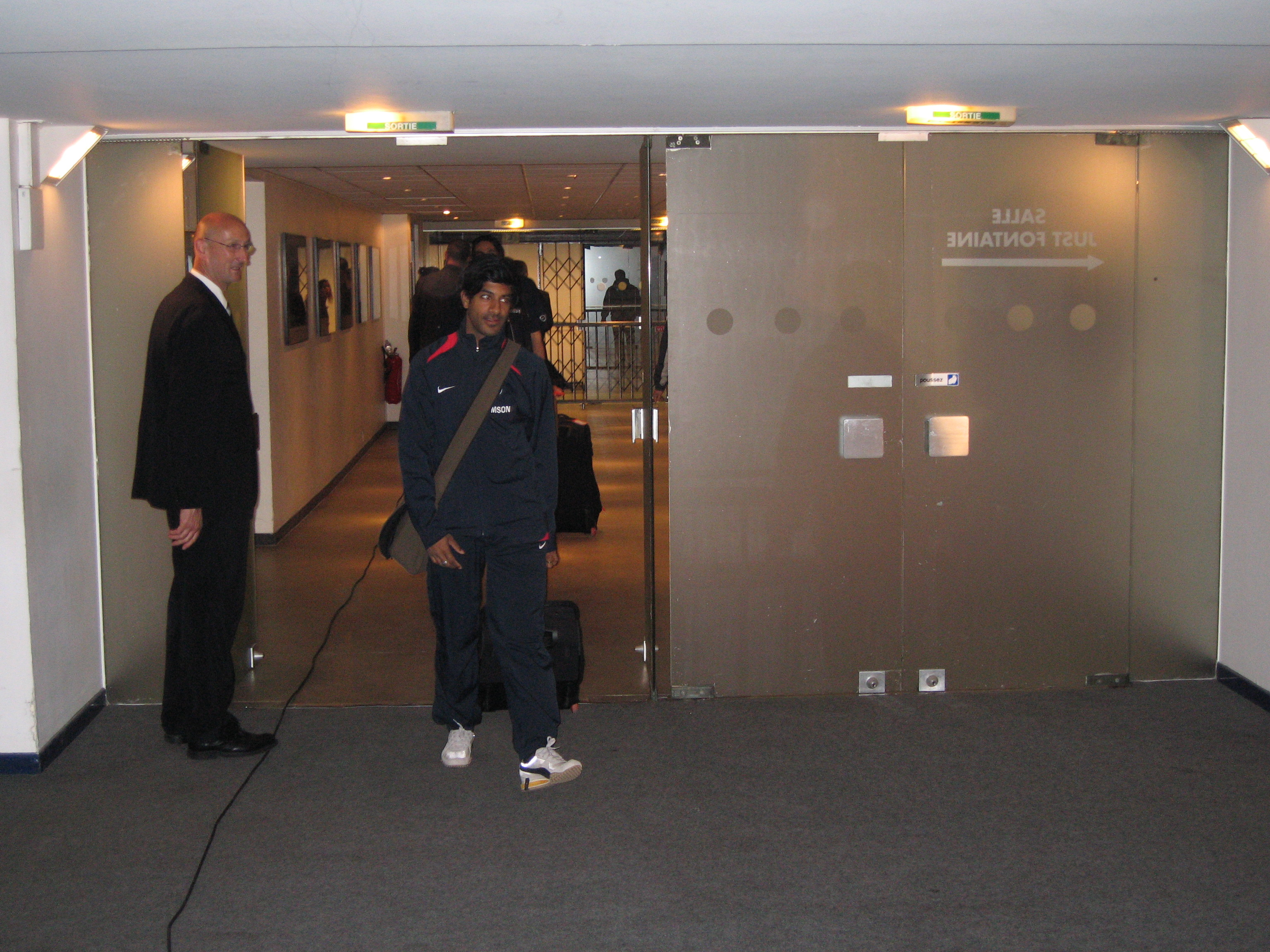 Vikash Dhorasoo arriving at the Parc des Princes on 5 May 2006 for a match against AC Ajaccio.